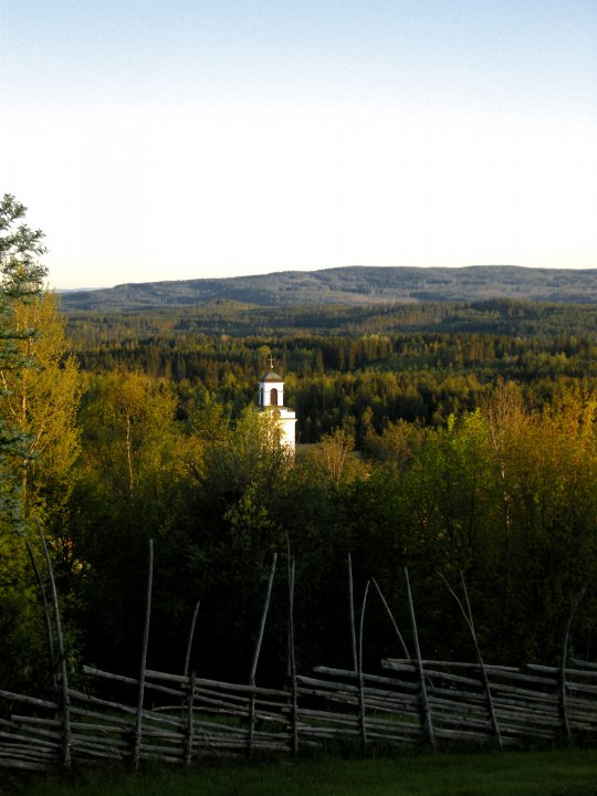 View from Dössberget, Bjursås